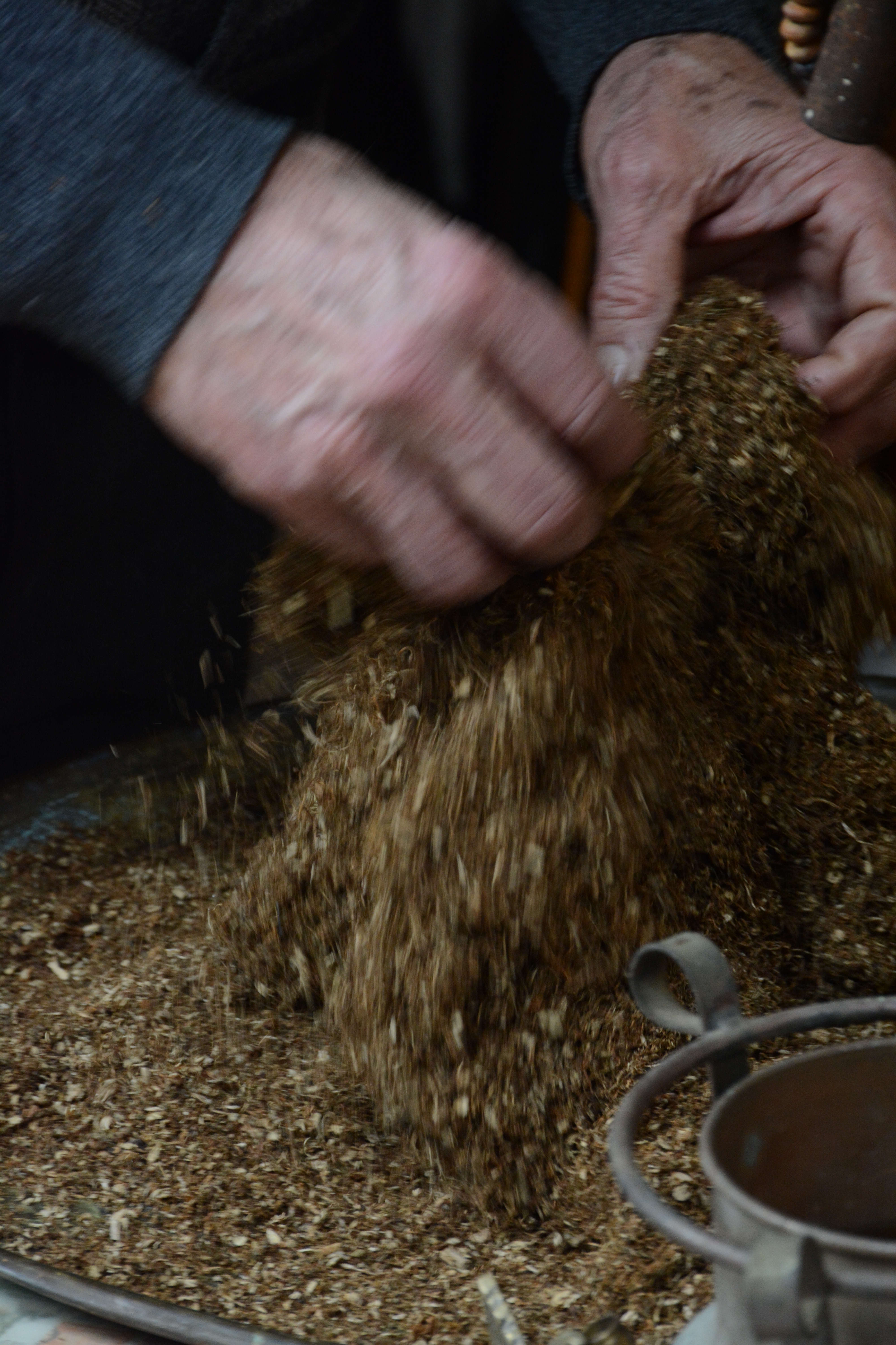 Separation of tobacco during its preparation